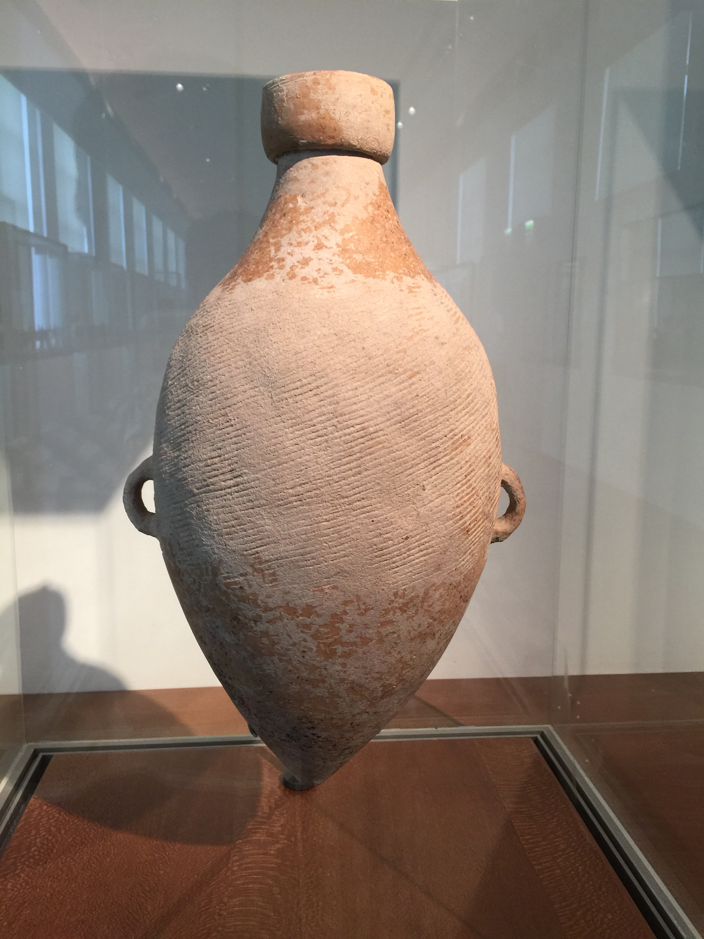 Terracotta amphora of Yangshao culture (5000-3000 BC). Banpo, Shaanxi. Guimet Museum.